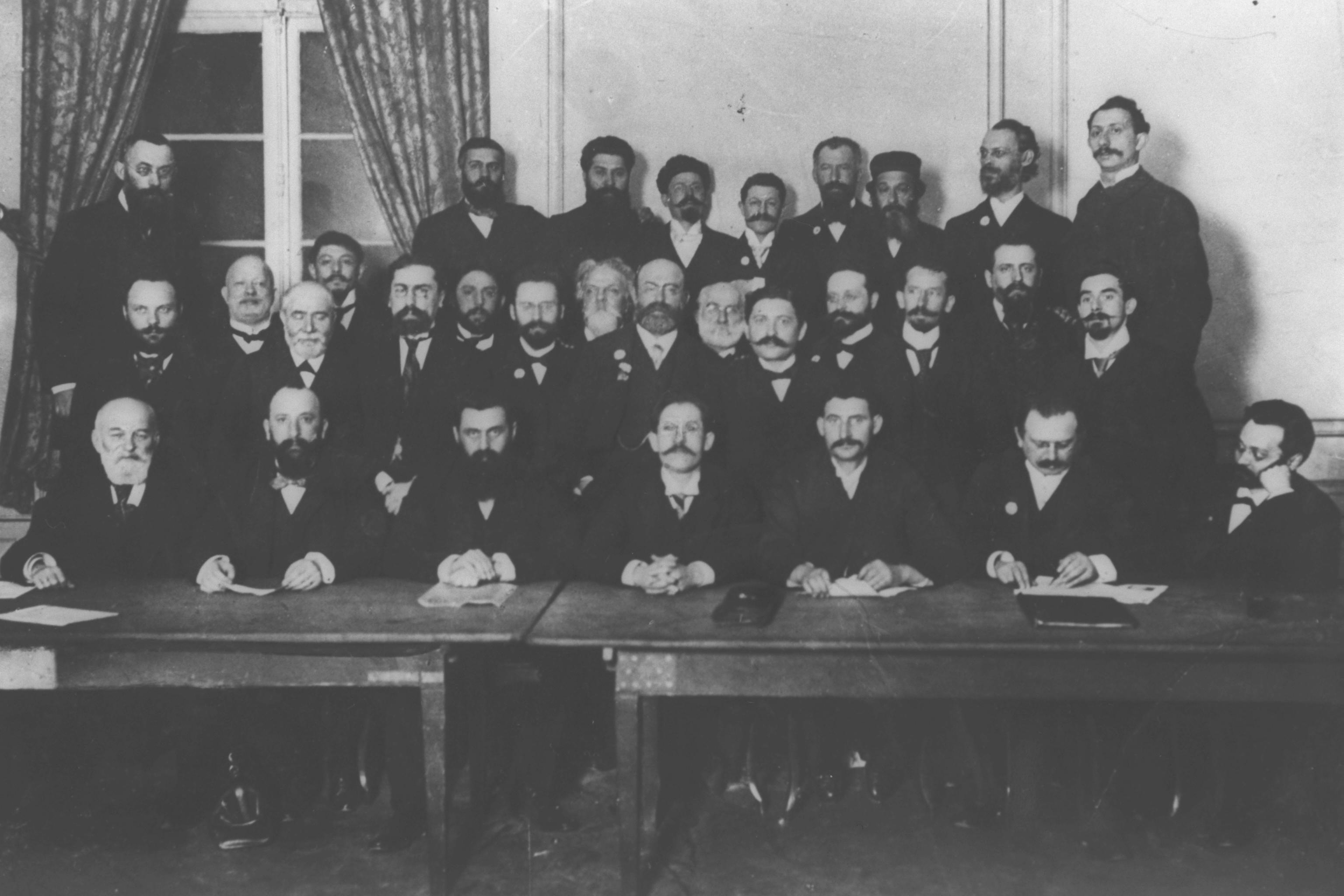 THEODOR HERZL (SEATED THIRD FROM LEFT) AND THE SUPERVISORY BOARD OF BANK OTSAR HITYASHVUT HAYEHUDIM IN THE YEAR 1900. תיאודור הרצל עם חברי הוועד המפקח של בנק אוצר התיישבות היהודים - שנת 1900